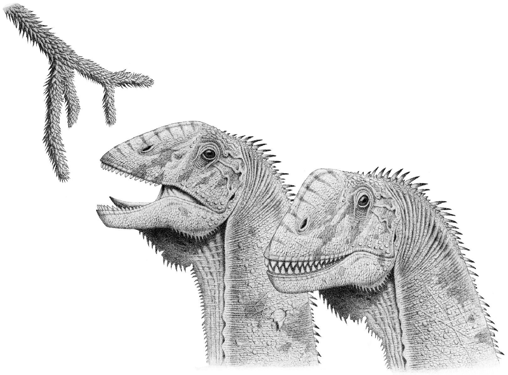 Reconstruction of the head of Euhelopus zdanskyi based on the three-dimensional reconstruction of the skull provided herein.